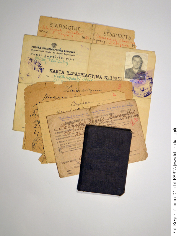 Fot. Krzysztof Lipko/Ośrodek KARTA